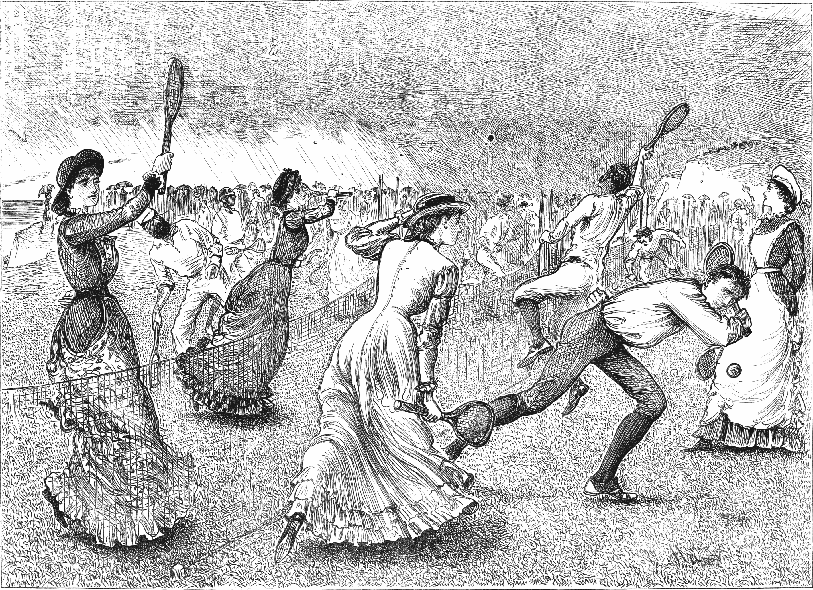 Men and woman play to together. impudent in 1881.